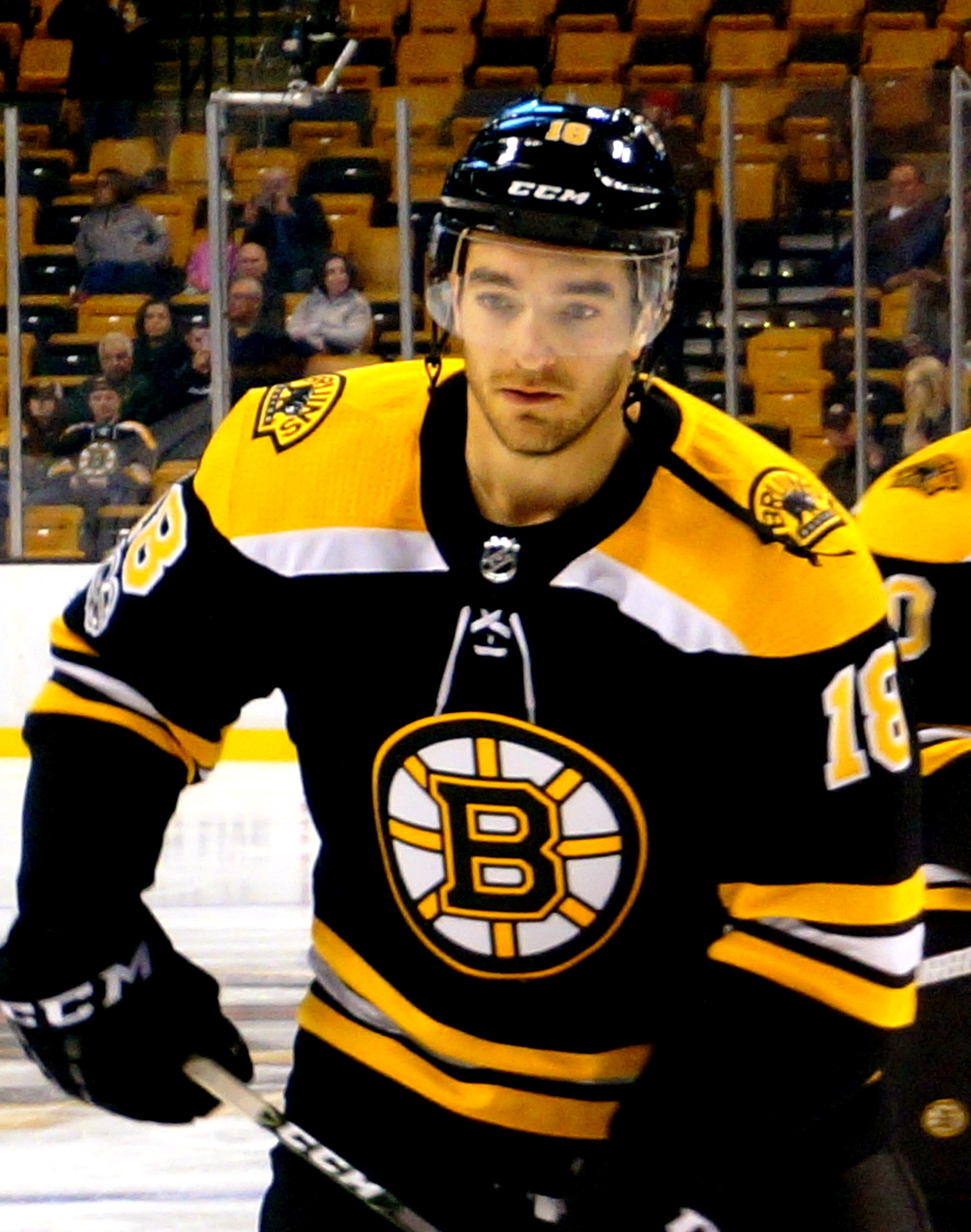 Kenny Agostino at Boston Bruins warm-ups October 2017